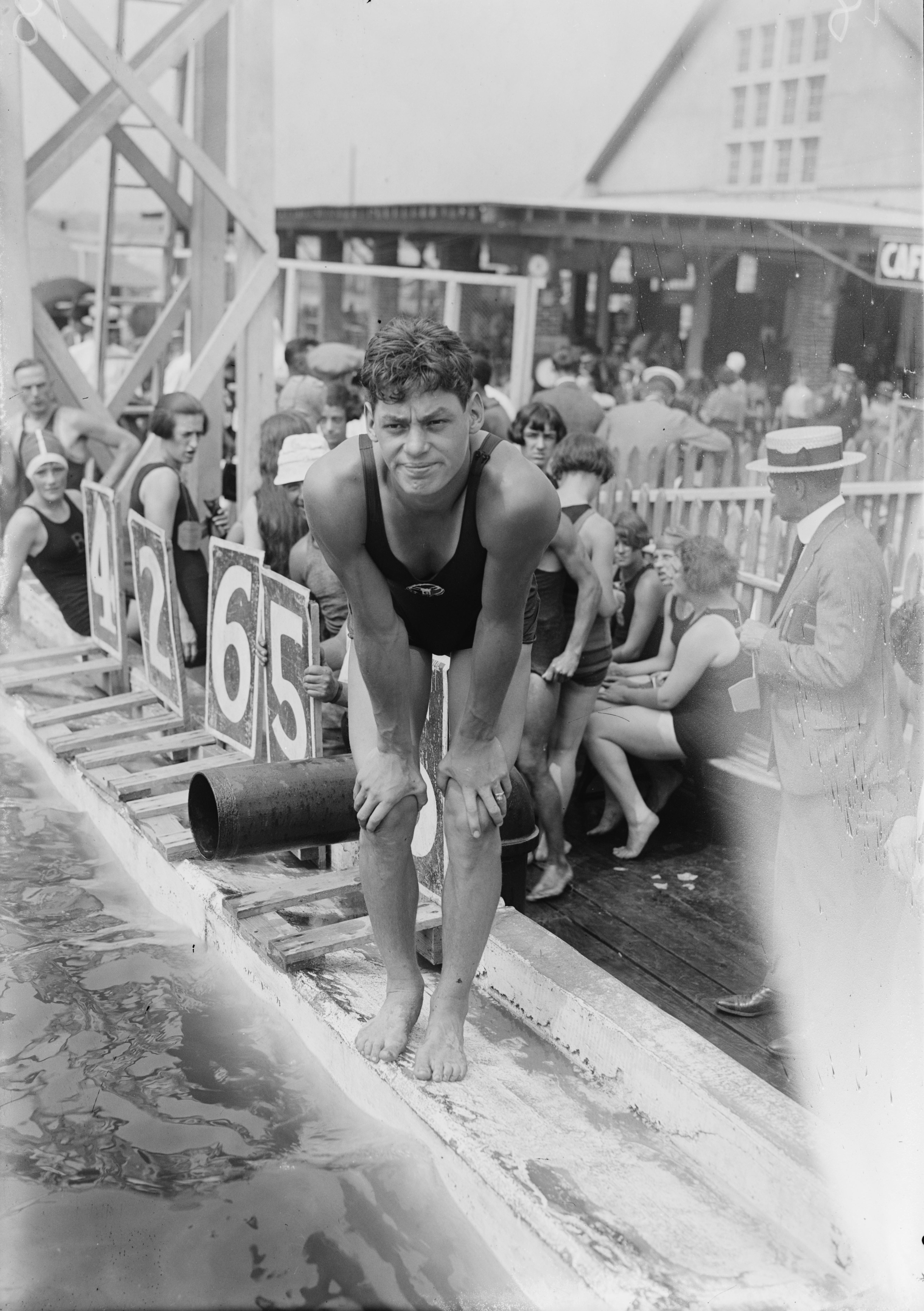 Johnny Weissmuller at a swim meet. Title from unverified data provided by the Bain News Service on the negatives or caption cards.Forms part of: George Grantham Bain Collection (Library of Congress).General information about the Bain Collection is available at